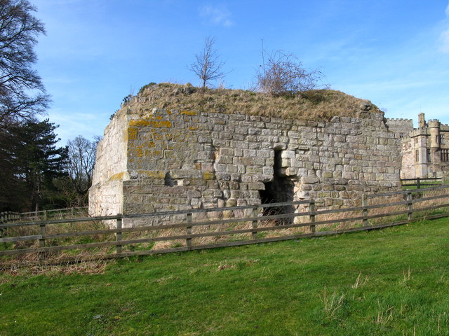 Parsons Tower, Ford Parsons Tower is a 14th century stone tower house to the south-west of Ford Castle. It was the home of the resident parson. The square tower shows traces of later attached buildings in its stonework. It now stands to the height of the first floor and the basement is covered by a barrel vault, enclosing a single chamber. It was damaged in 1513 and repaired in 1541 to make a vicar's pele.